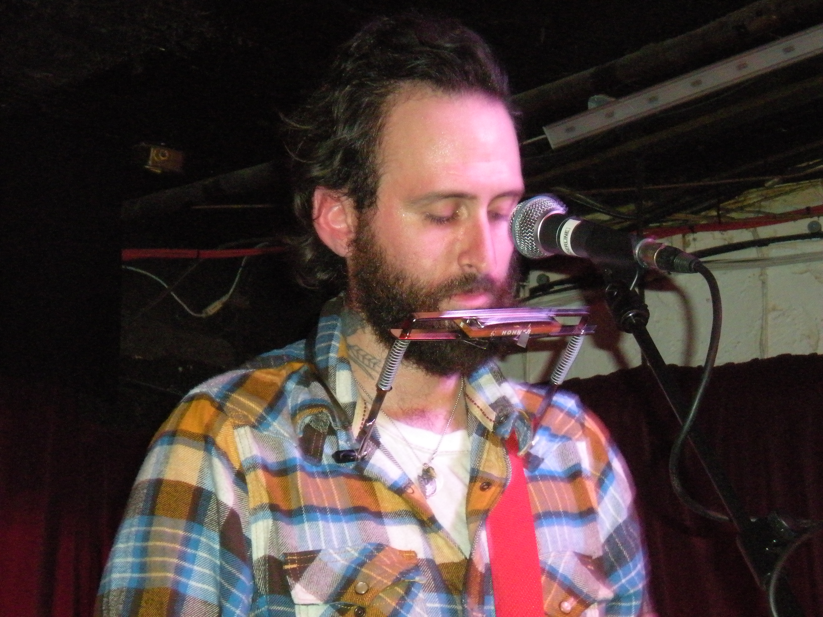 Mat Brooke of Grand Archives playing at The Borderline, London, February 5th 2010.